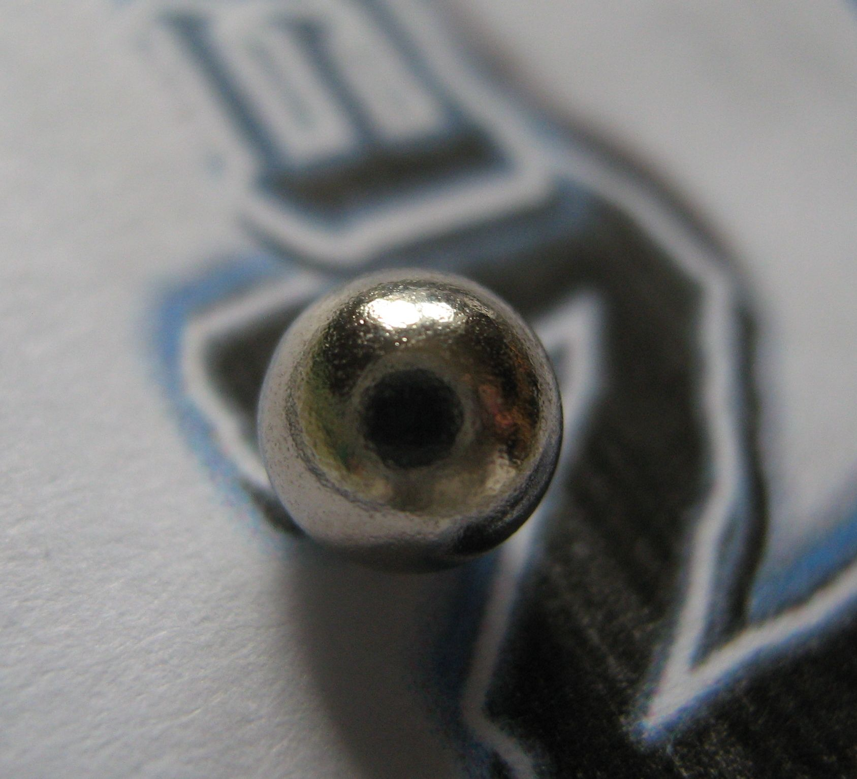 An individual neodymium magnet resting atop its instruction manual.